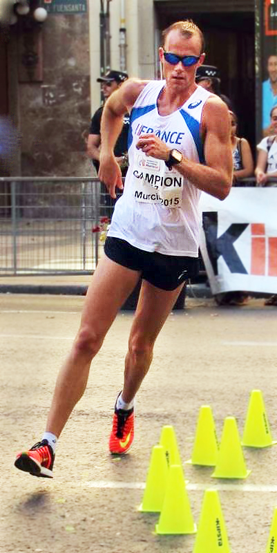 17-Kevin Campion (FRA) in the 11th European Cup Race Walking Murcia ESP 17 May 2015